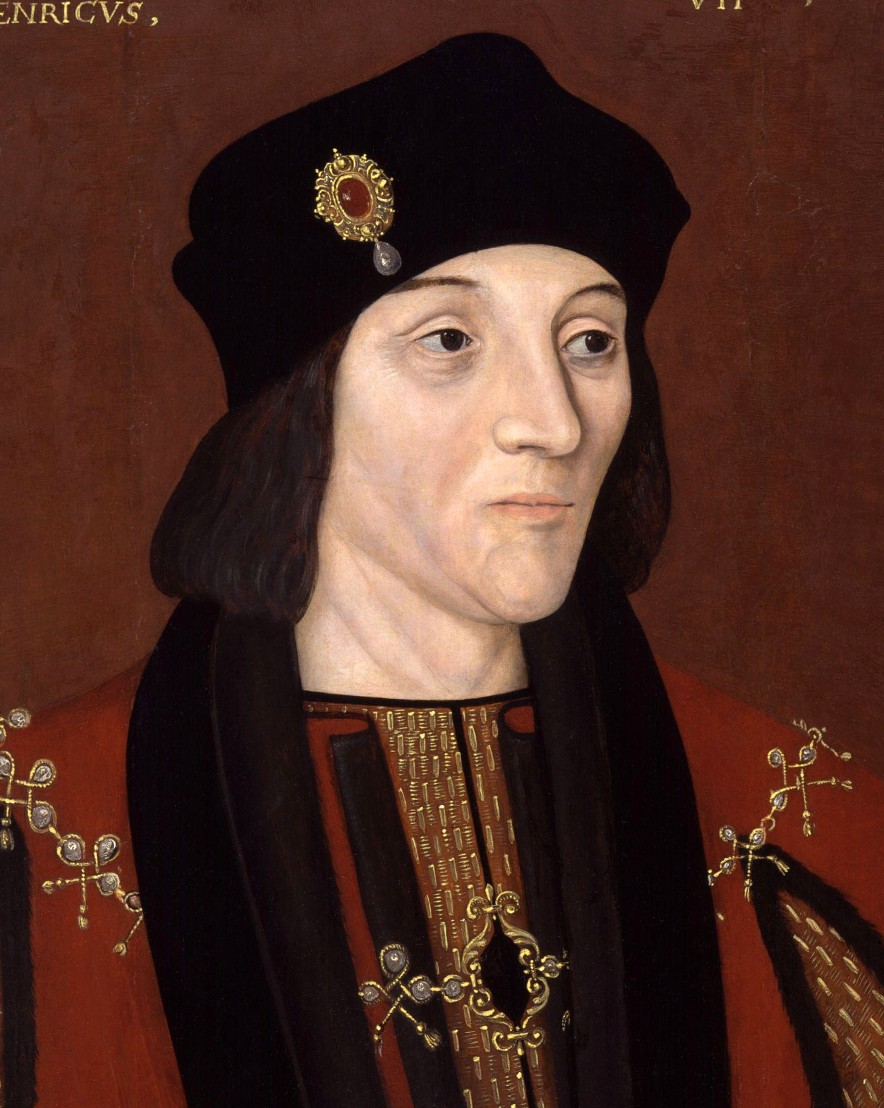 King Henry VII, by unknown artist. All images in this batch have an unknown author, but there is strong evidence it was first published before 1923 (based mainly on the NPG's estimated date of the work).